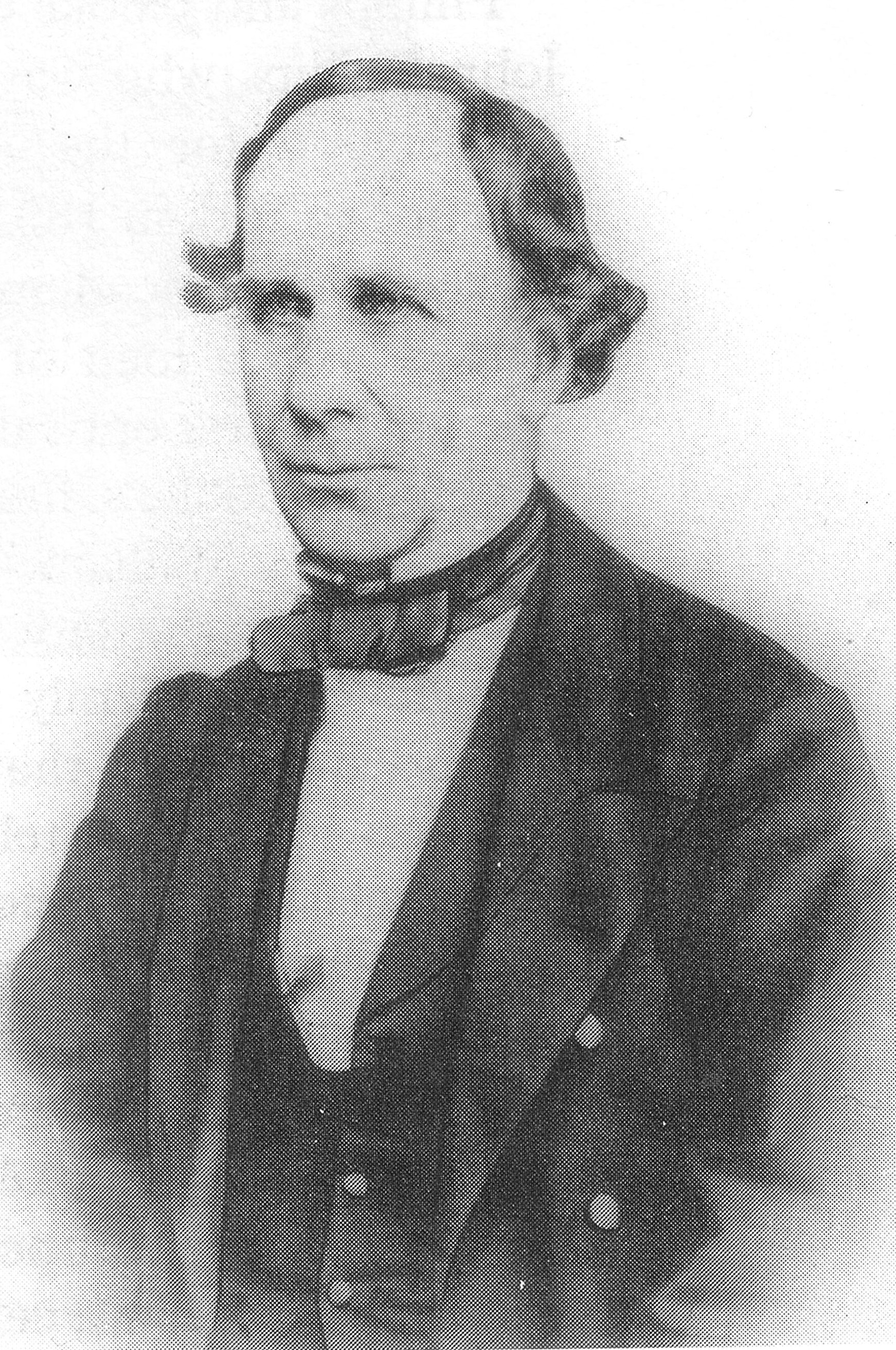 photograph of Thomas Cook from York